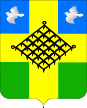 Coat of arms of Gazyr, Výselki raion, Krasnodar krai, Russia.